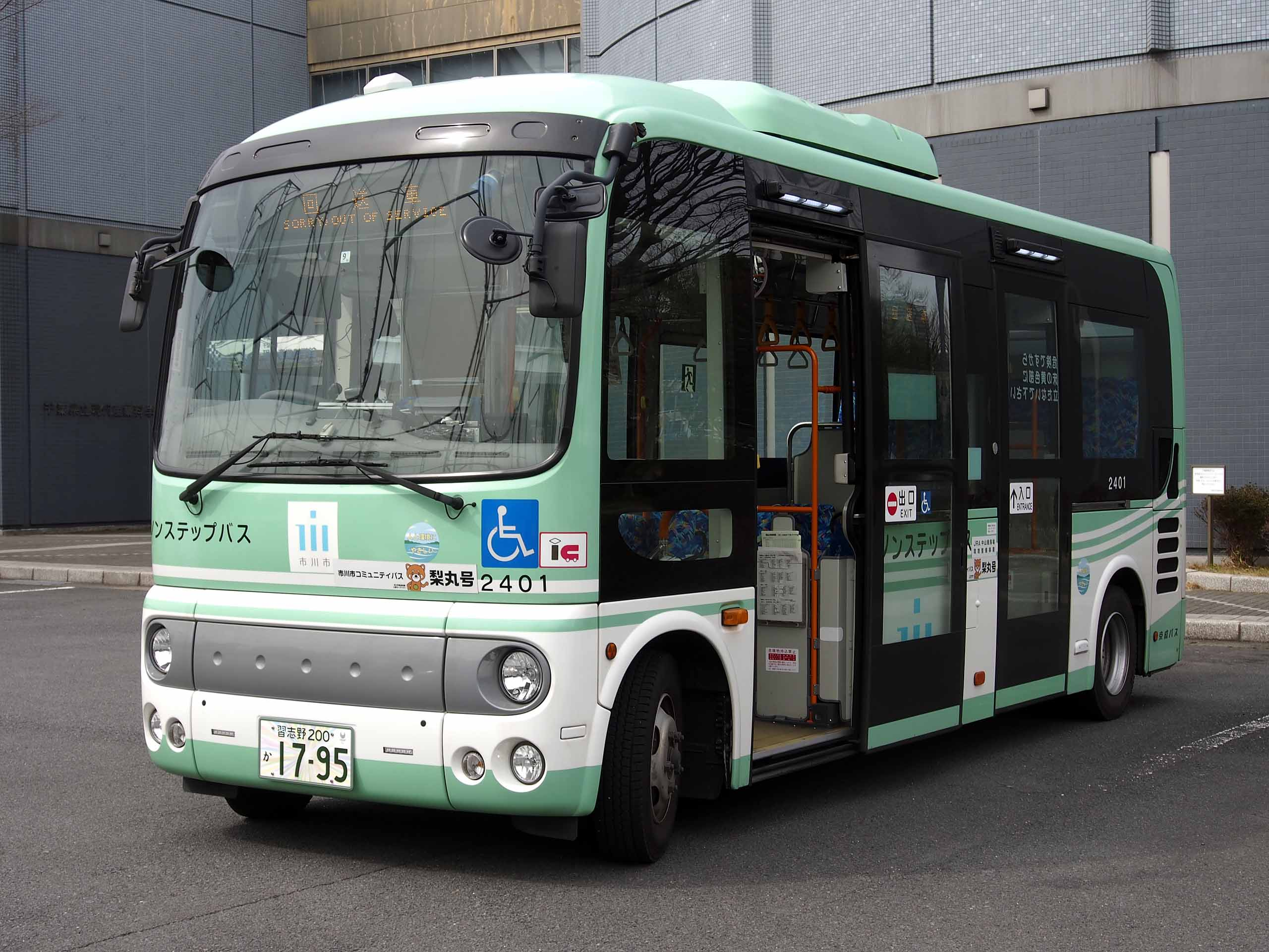 Fleet of Ichikawa City Community Bus, for North-eastern Route named "Nashimaru-go". Model: Hino Poncho HX License plate: CBN200 KA1795 Place: Chiba Museum of Science and Industry, Ichikawa, Chiba Japan